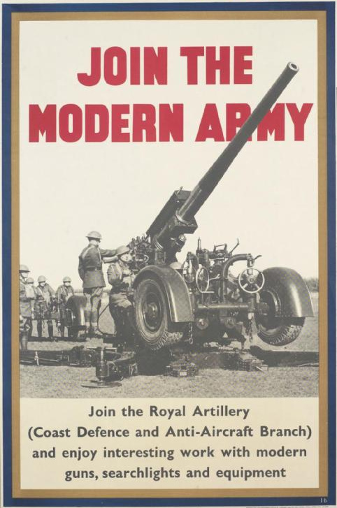 Join the Modern Army whole: the image is positioned in the upper three-quarters. The title is partially integrated and placed in the upper quarter, in red. The text is separate and located in the lower quarter, in black. All set against a white background and held within a blue and light brown border. image: a full-length depiction of two British infantrymen manning an anti-aircraft gun. Four more soldiers stand in the background left. text: JOIN THE MODERN ARMY Join the Royal Artillery (Coast Defence and Anti-Aircraft Branch) and enjoy interesting work with modern guns, searchlights and equipment I b PRINTED FOR H.M. STATIONERY OFFICE BY J. WEINER LTD., 71/5. NEW OXFORD STREET, LONDON, W.C.1. 51-1672